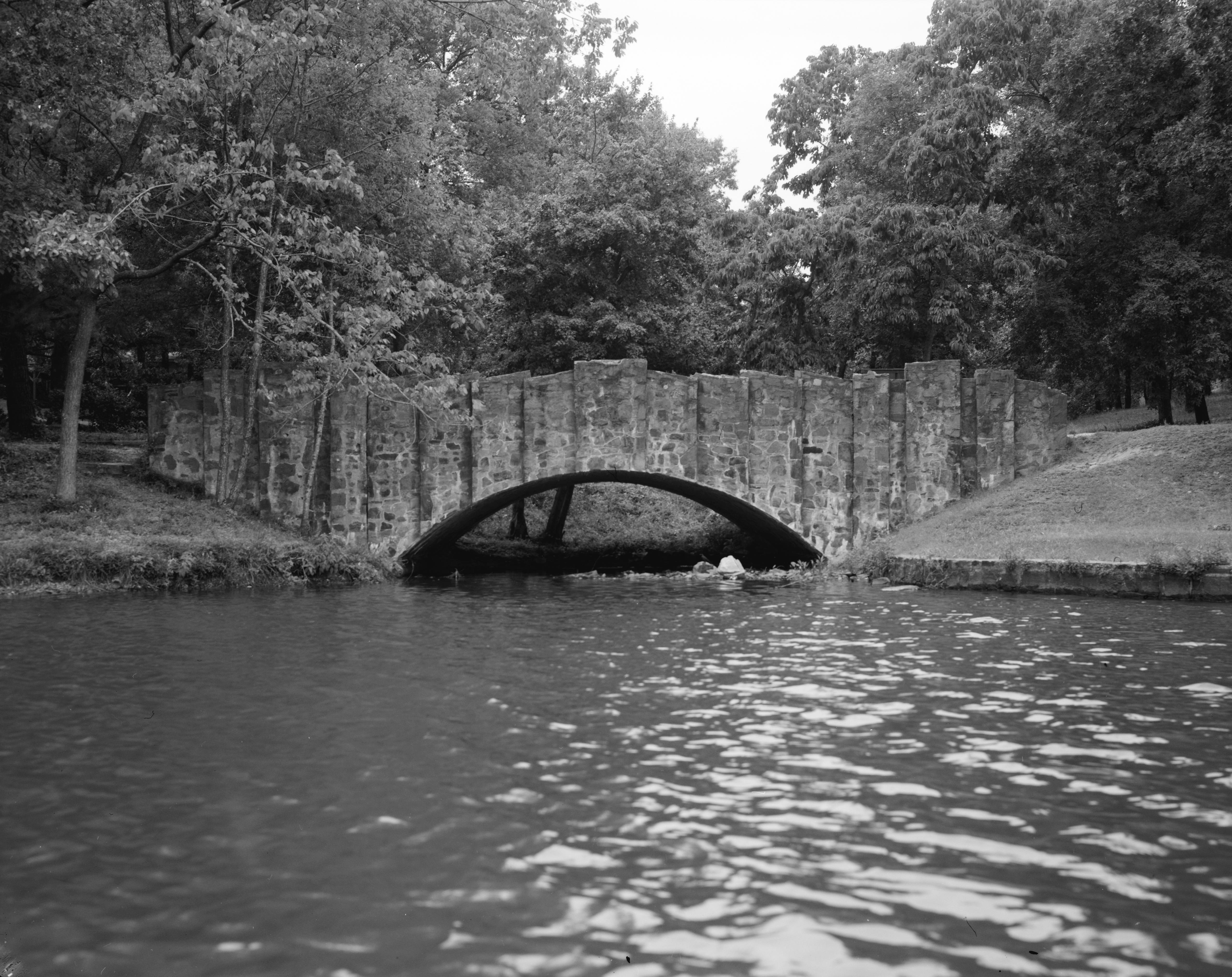 Eastern side of the Lakeshore Drive Bridge, which carries Lakeshore Drive over Lake No. 3 in North Little Rock, Arkansas, United States. Built in 1935, this closed spandrel deck arch bridge is listed on the National Register of Historic Places.